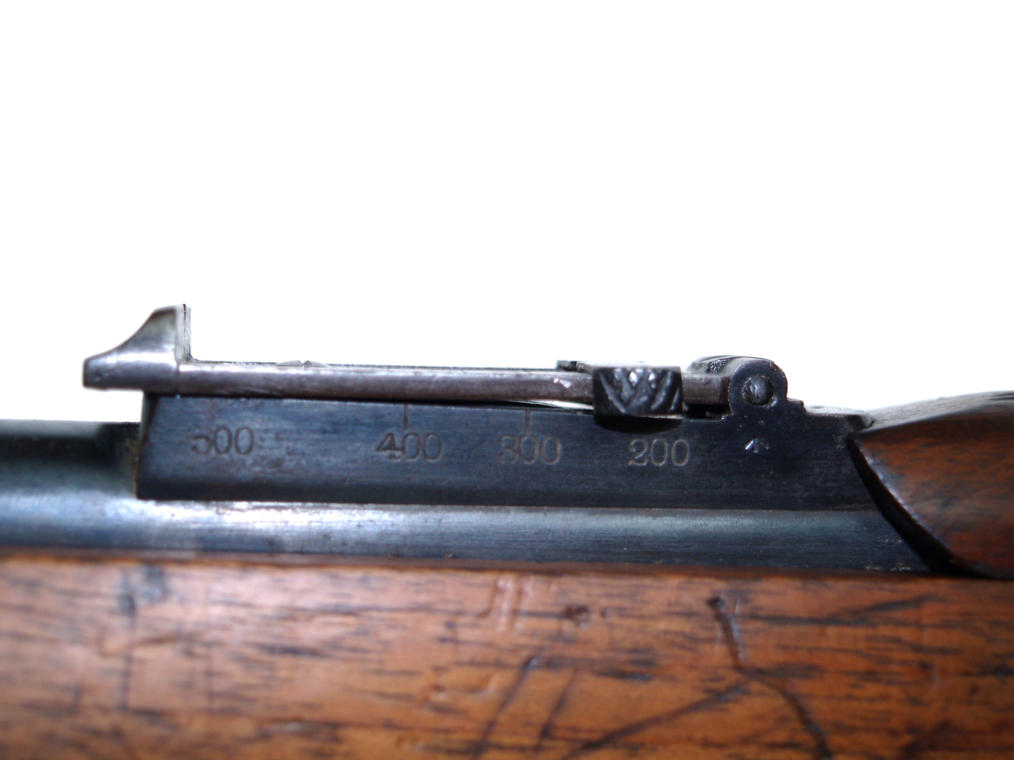 British Lee Enfield Mk Ix rifle (Long Tom), Anglo Boer War Probably belonged to and carved by Lance-Corporal Alfred Samuel Clark, 16th Coy, NZMR rifle- bolt action; .303 inch calibre; comes with magazine and original leather sling; carved butt carving- side 1- soldier on horseback side 2- 1900-1902 - SOUTH AFRICA - BOER WAR - NZMR 6 markings- proof and view marks; Military Acceptance marks; War Department marks (under top wood) maker's details and date- SPARKBROOK 1900 serial number 66575 on body and bolt reign and model- VR and LE Ix; WW2 Home Guard issue- 1 - HG - 1164 maker- Royal Small Arms Factory, Sparkbrook; circa 1900 missing parts- rear valley sight missing; front V.S. groove missing; sling missing (1995)